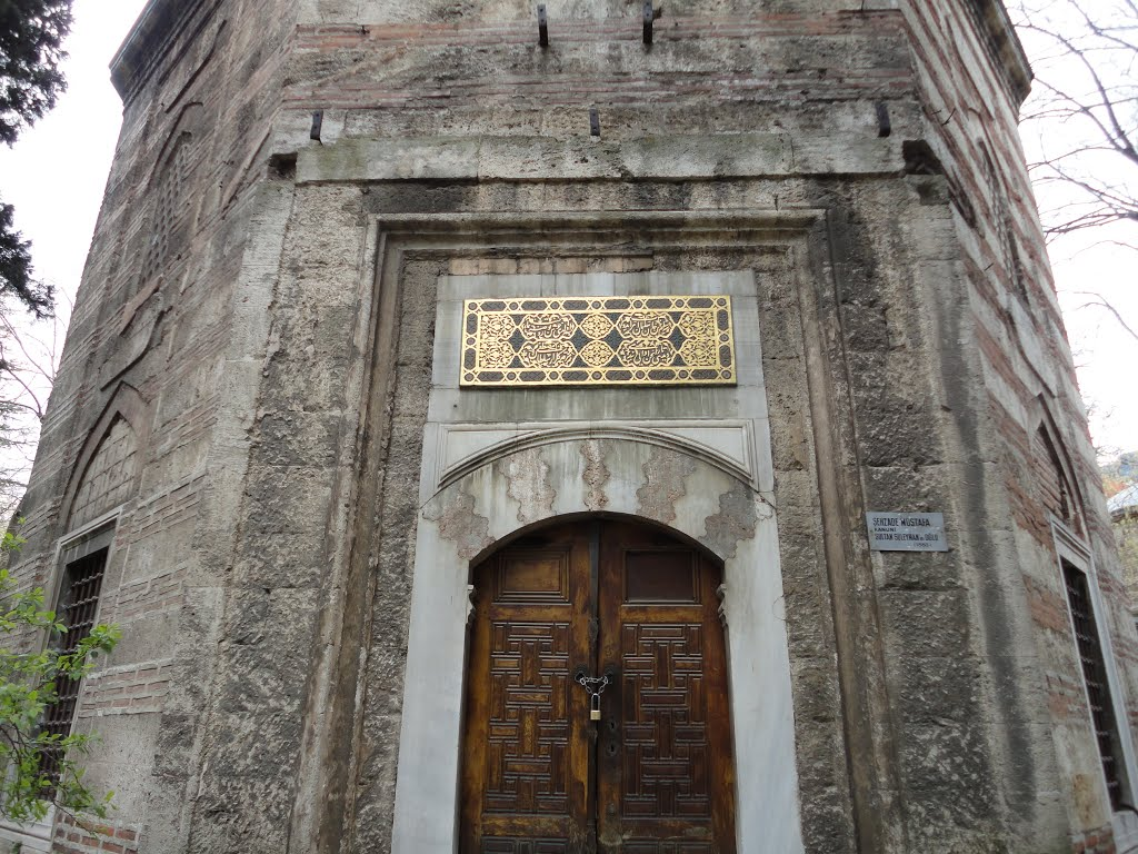 Mausoleum of tomb of Şehzade Mustafa located in Muradiye Complex, Bursa.